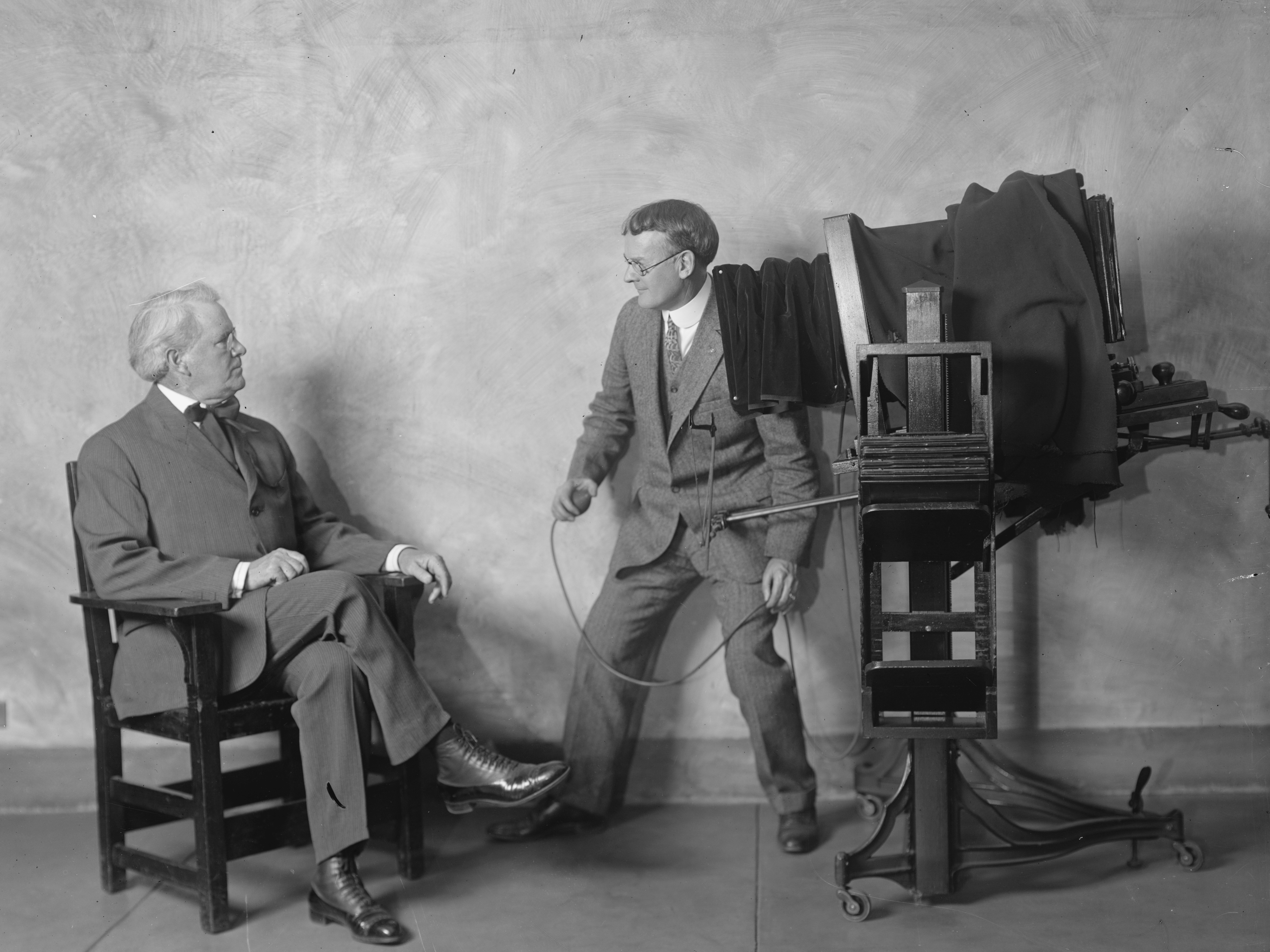 Photographer (George W. Harris?) posing Washington cartoonist Cliff Berryman, using one of the huge cameras of the time. From the Harris & Ewing collection of the Library of Congress.